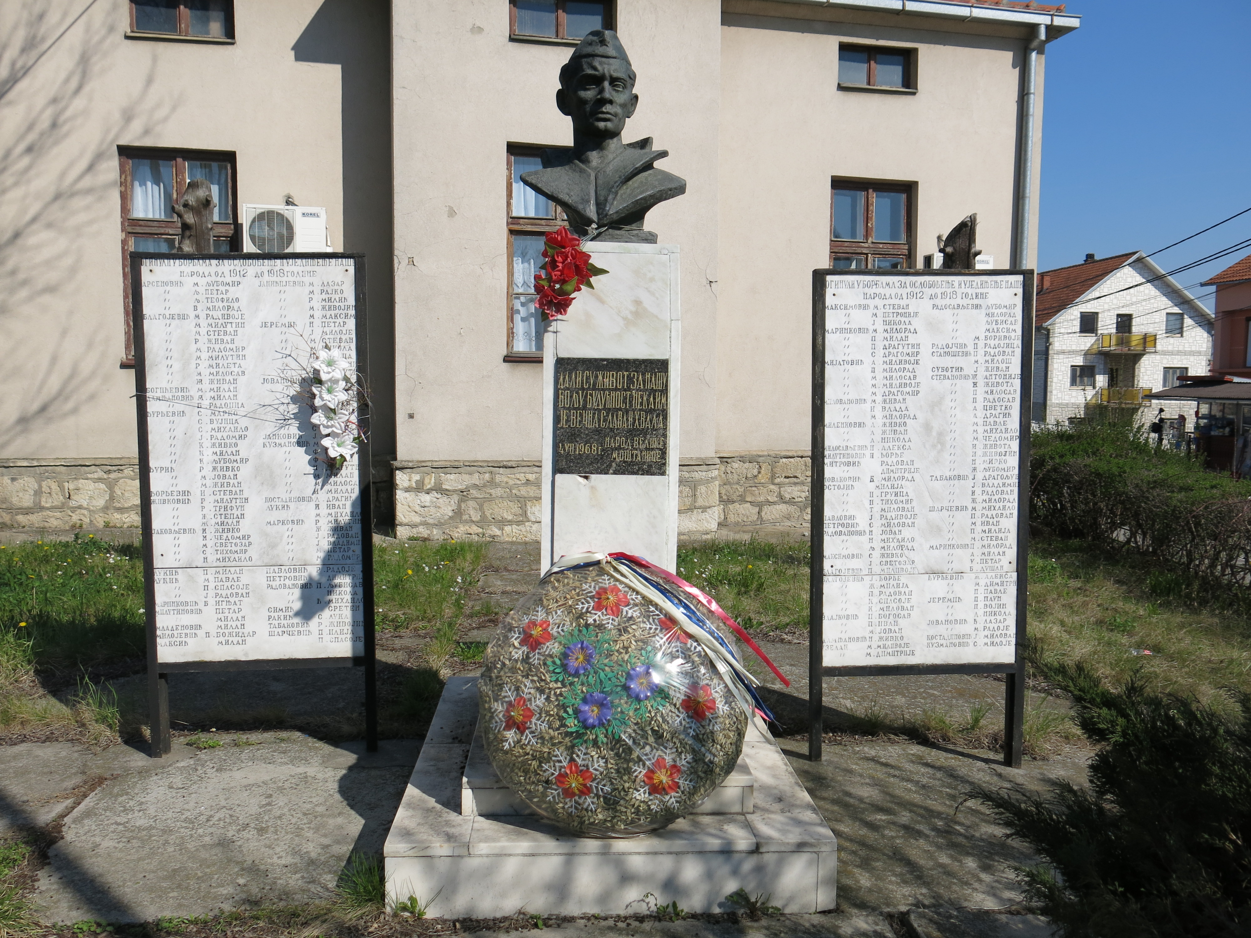 Velika Moštanica, Monument to the fallen warriors between 1912 and 1918